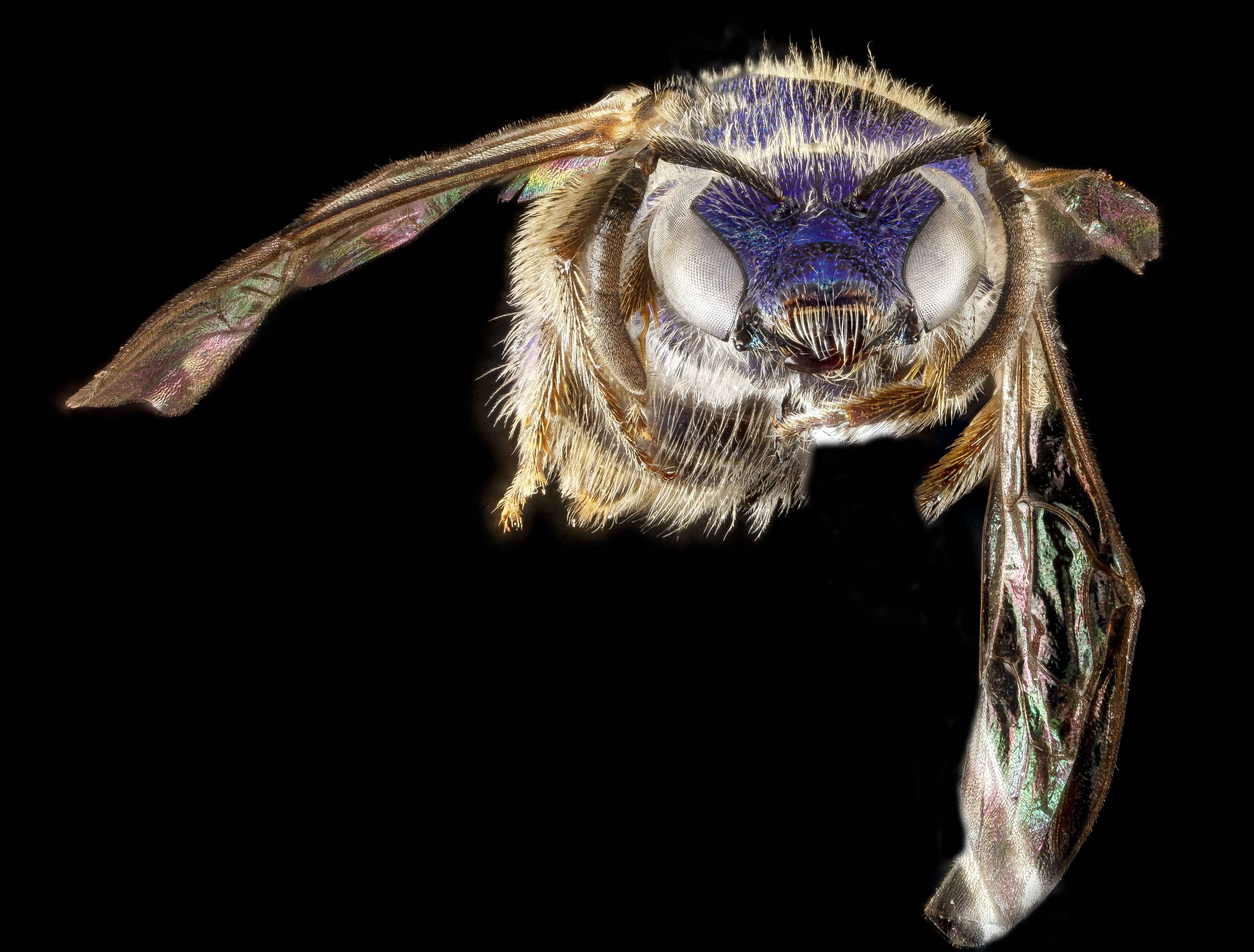 Cumberland Island National Seashore, Georgia, Dark Purple/Blue form of this species that often occurs in coastal and Deep South situations